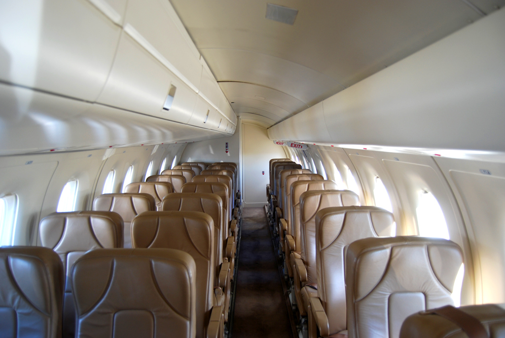 9th photo on . Beautiful interior.